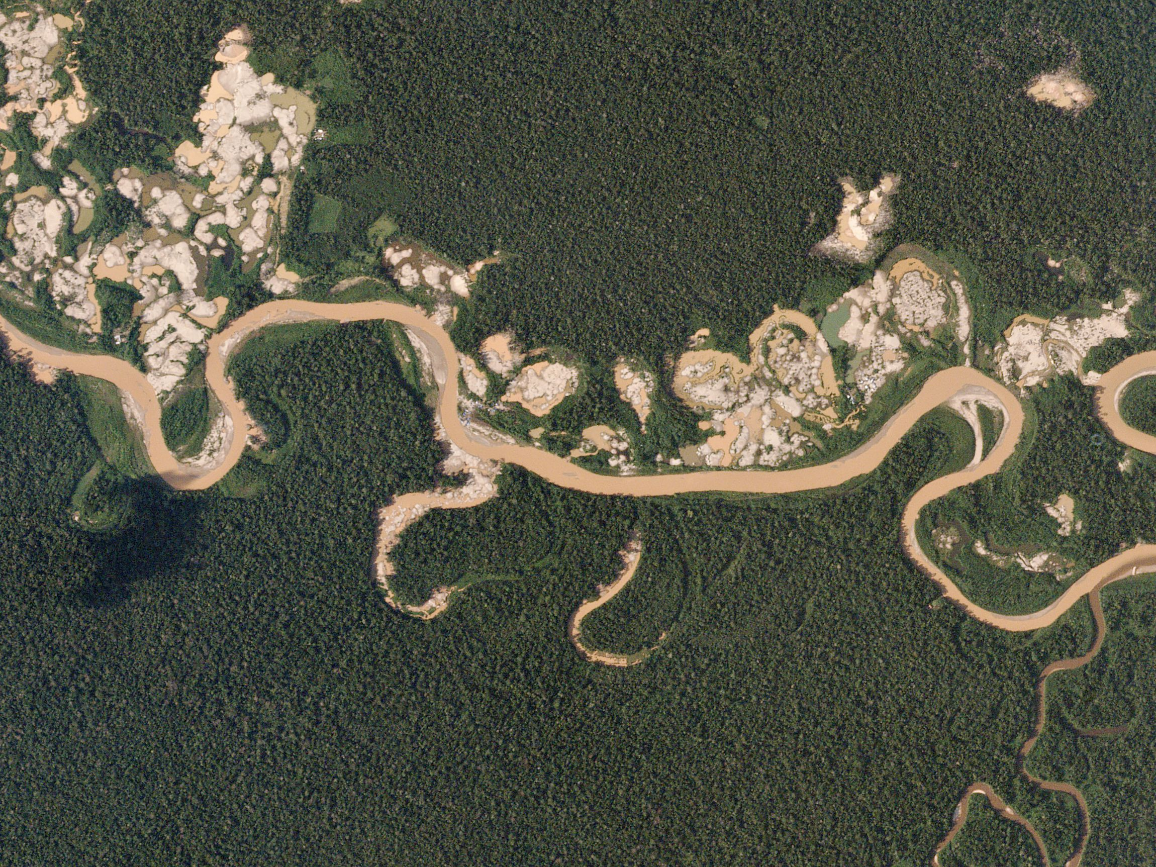 Illegal Mining In Peru Peru January 29, 2016 The sprawling "La Pampa" gold mine has grown quickly over the years. In 2016, however, the mine spilled south of the Malinowski River, illegally entering the Tambopata National Reserve—a protected forest. The Amazon Conservation Association used Planet data to publish a series of alerts which tracked hundreds of hectares of illegal expansion and mapped alterations to the course of the Malinowski River. The Peruvian government has intervened and is now actively targeting illegally cited mining equipment inside the reserve.